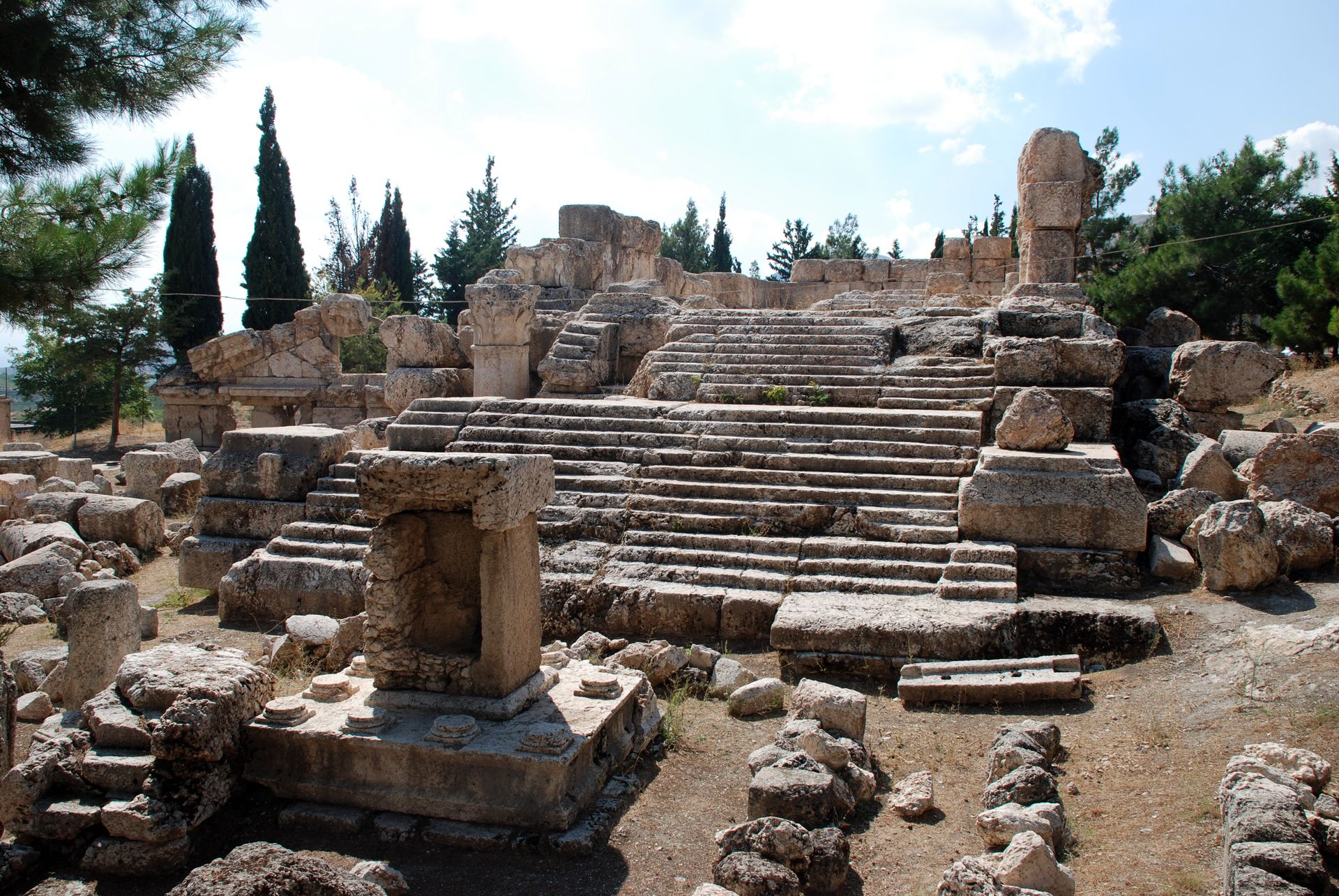 Qsarnaba, near Zahlé, Lebanon, roman temple from east